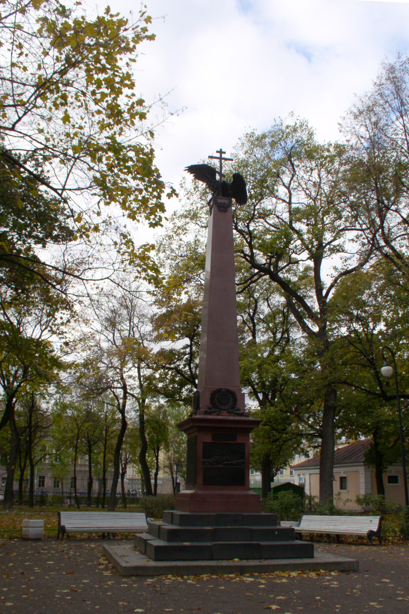 The Tsushima obelisk at Nikilskiy Garden near the Saint Nikolas Naval Cathedral in Saint Petersburg. October 11, 2007.